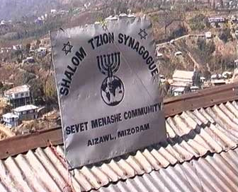 Stars of David on the sign of the synagogue of Sevet Menashe in Mizoram (India)